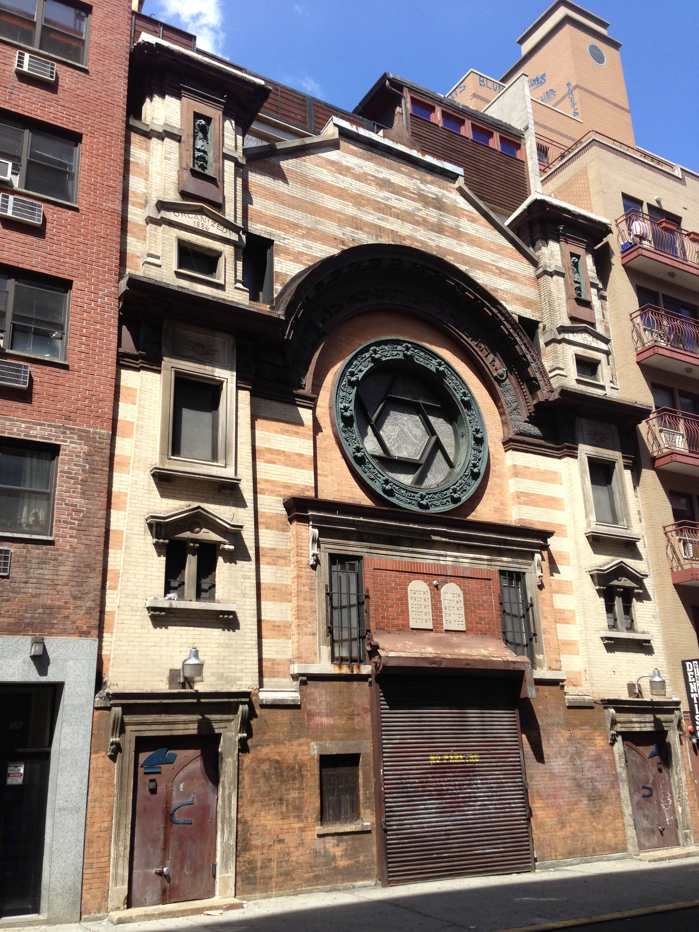 First Warsaw Congregation (Former Congregation Adath Jeshurun) 58 Rivington Street, Lower East Side, NYC